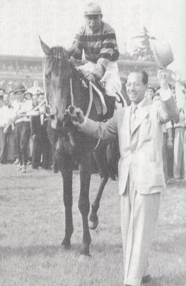 Tokino Minoru 1951,Jun 3rd